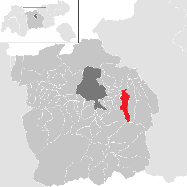 District Innsbruck Land